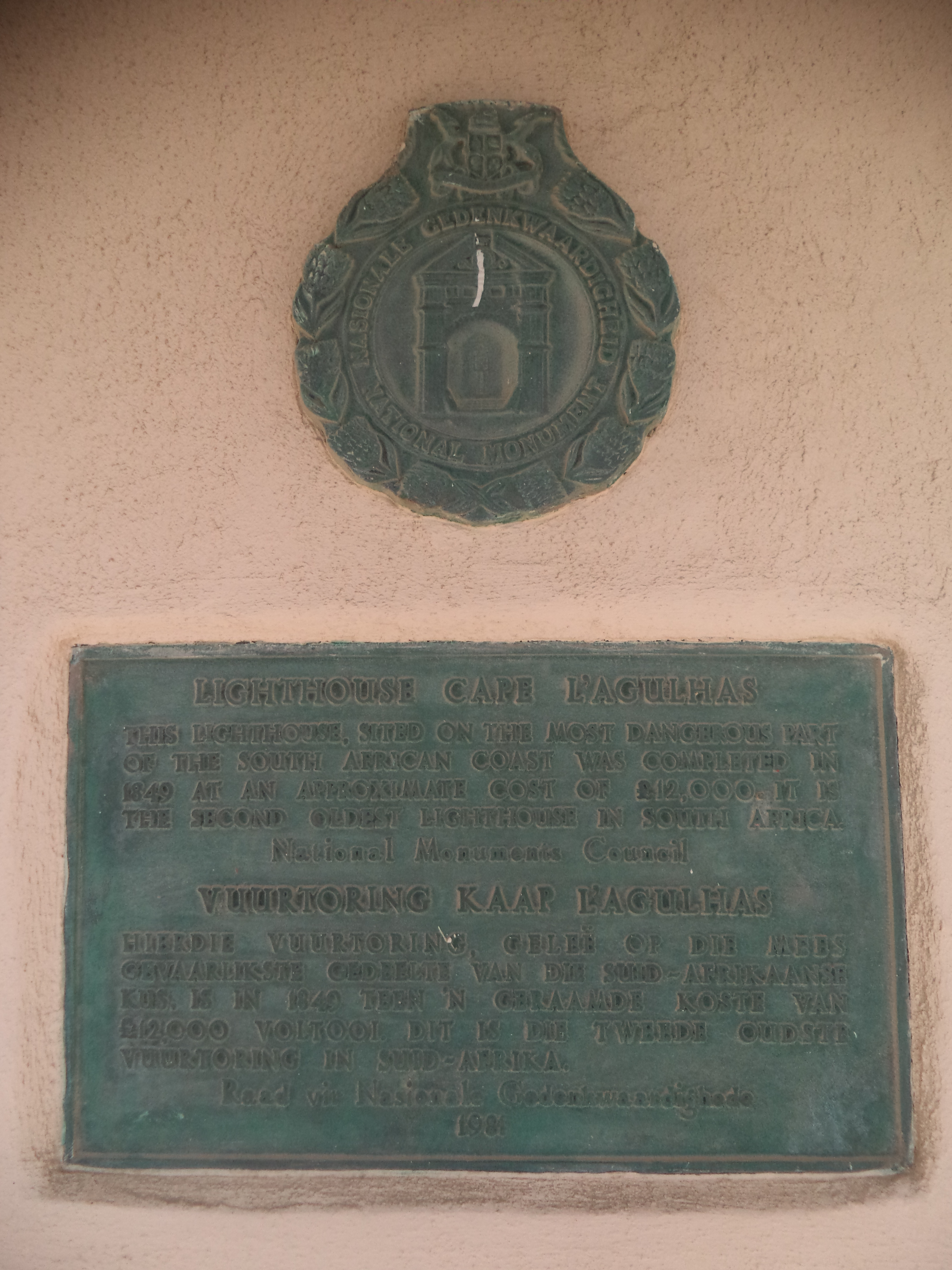 The memorial seal and the memorial plaque on the entrance of Cape Agulhas Lighthouse. The inscription on the seal writes: National Monument The inscription on the plaque writes: Cape Agulhas Lighthouse This lighthouse, sited on the most dangerous part of the South African coast was completed in 1849 at an approximate cost of £12,000. It is the second oldest lighthouse in South Africa. National Monument Council